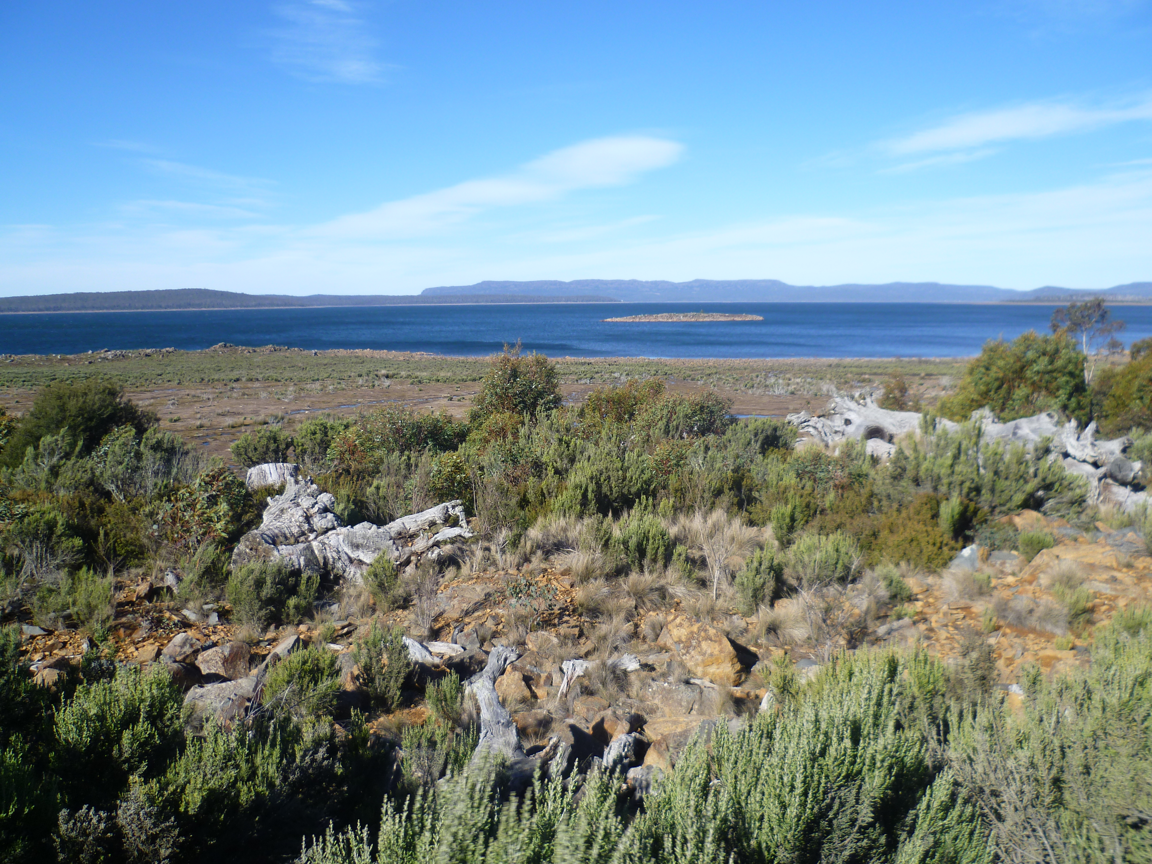 Vegetation and part of Great Lake near Liawenee, Tasmania, Australia